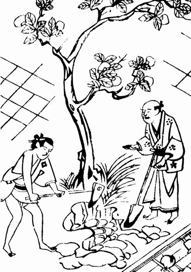 "The ghost story brings wealth" from the Shokoku Hyakumonogatari